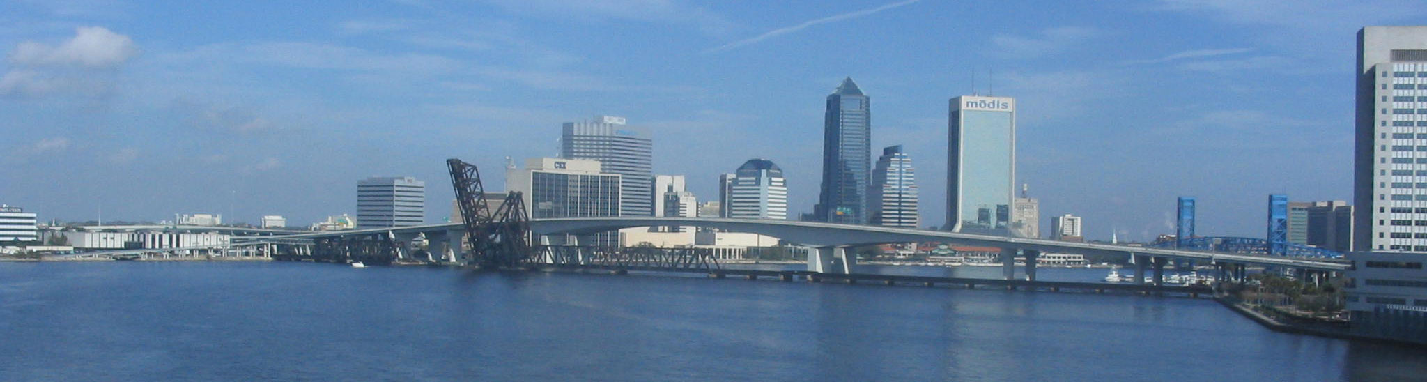 The Acosta Bridge and adjacent Florida East Coast Railway bridge viewed from the Fuller Warren Bridge.